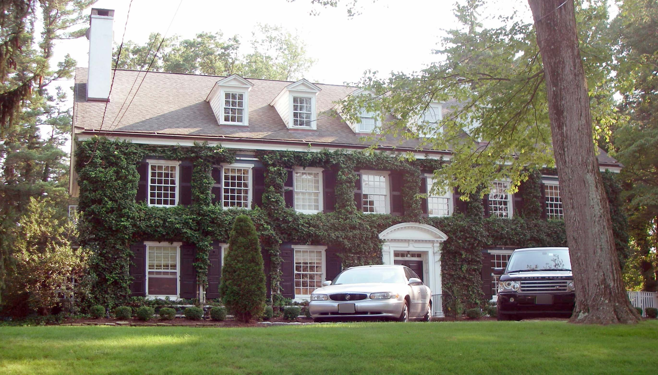 Former New Jersey Governor Jim McGreevy's house, Plainfield, NJ.